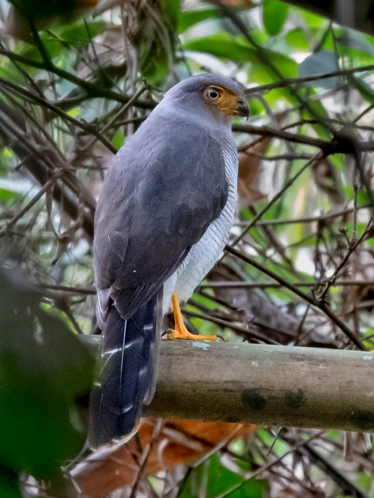 Cryptic Forest Falcon; Parauapebas, Pará, Brazil